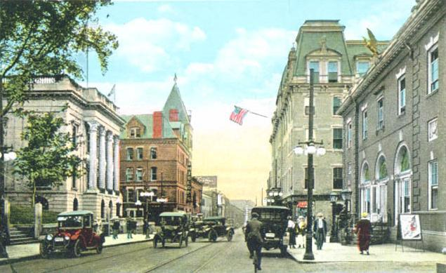 State Street, looking East, New London, CT; from a c. 1920 postcard.